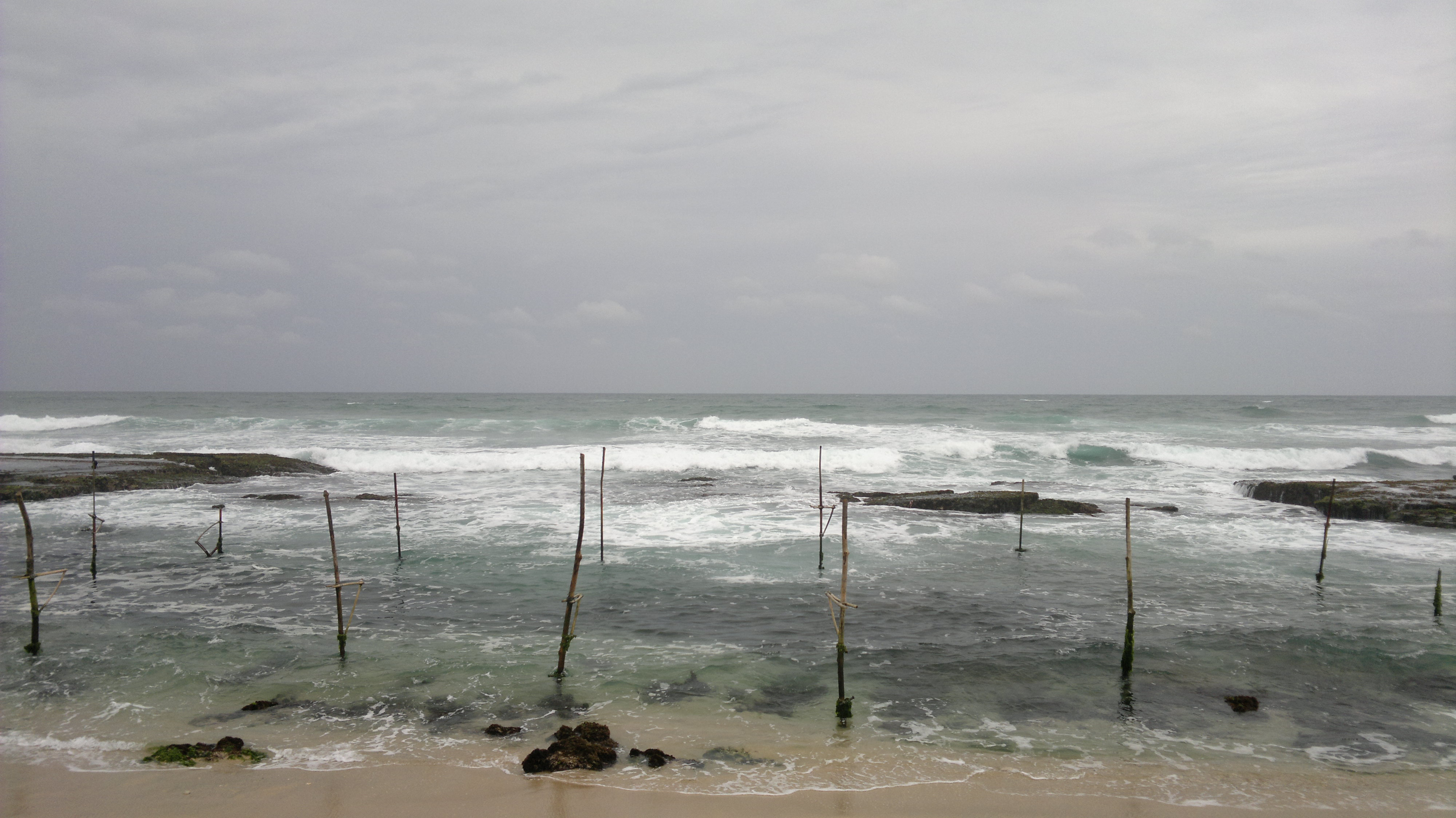 Stilt Farming, SriLanka